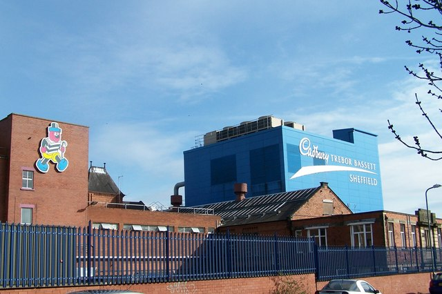 Geo. Bassett & Co confectionery factory on Beulah Road in Sheffield, South Yorkshire. Bassett's is now owned by the Cadbury Group and part of the Cadbury Trebor Bassett division. Bassett's Liquorice Allsorts, Jelly Babies and other sweets are manufactured here. Further pictures: 1151483; 1517378